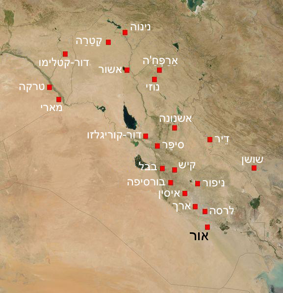 Location of Oer